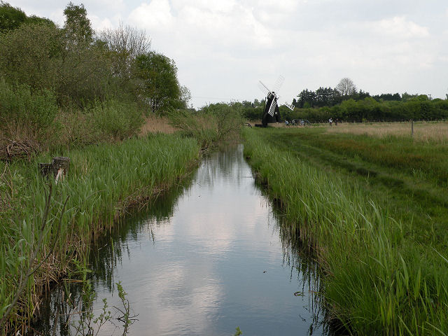 Ditch and windpump at Wicken Fen